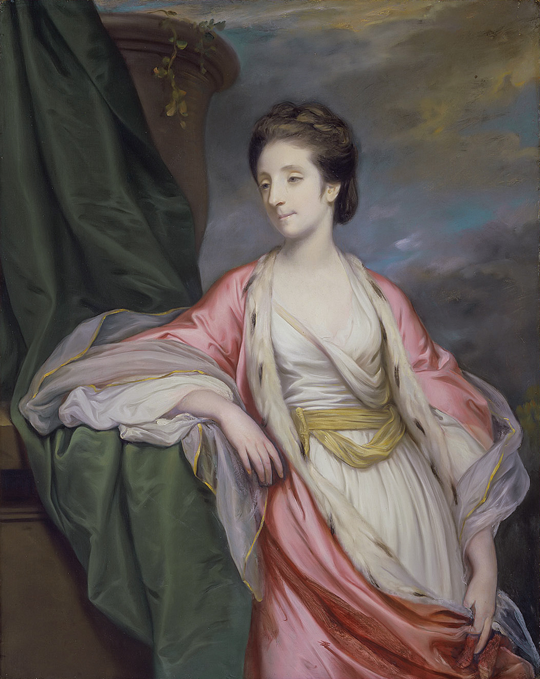 Christiana Hely-Hutchinson, future Baroness Donoughmore of Knocklofty oil on canvas 126,4 x 100,7 cm 1766